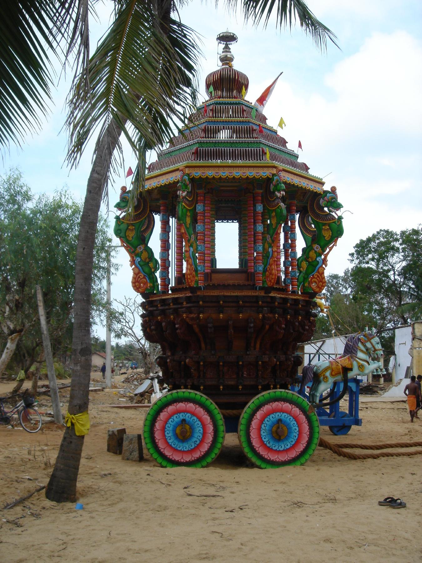 Temple car